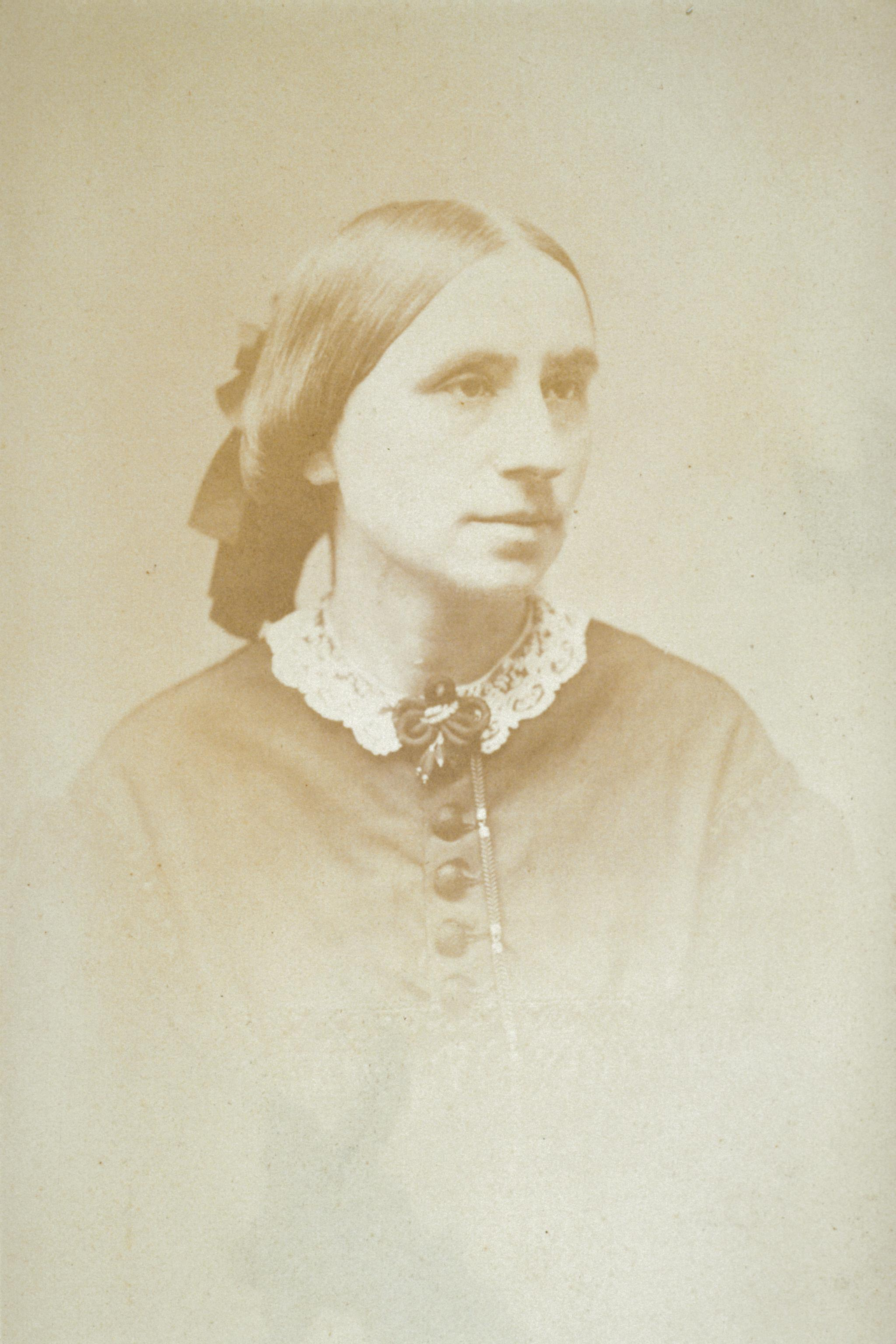 Album Title Title :Photographs. NEW ENGLAND WOMEN'S CLUB 1868-1908